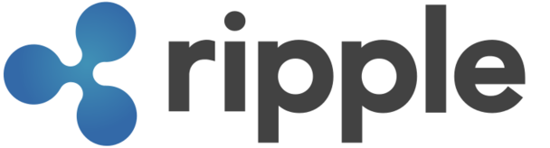 ripple logo